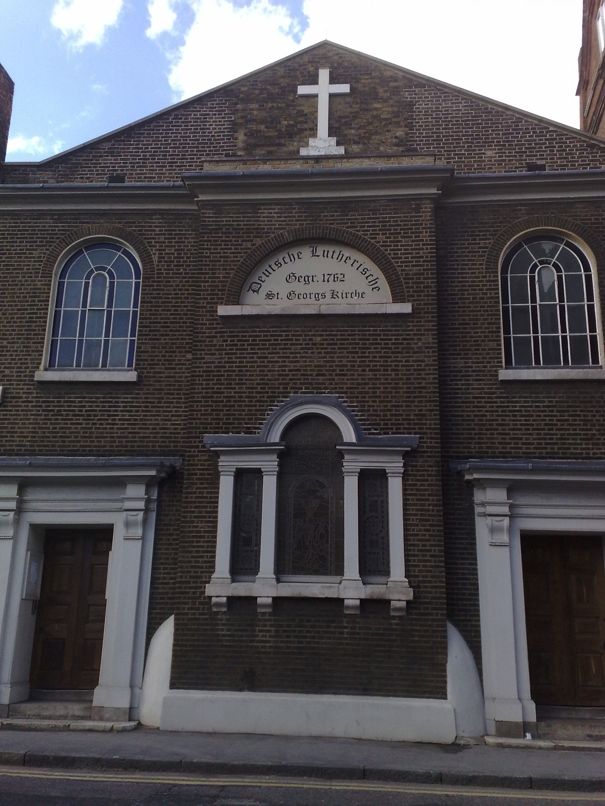 German Lutheran church, Alie St, London E1.